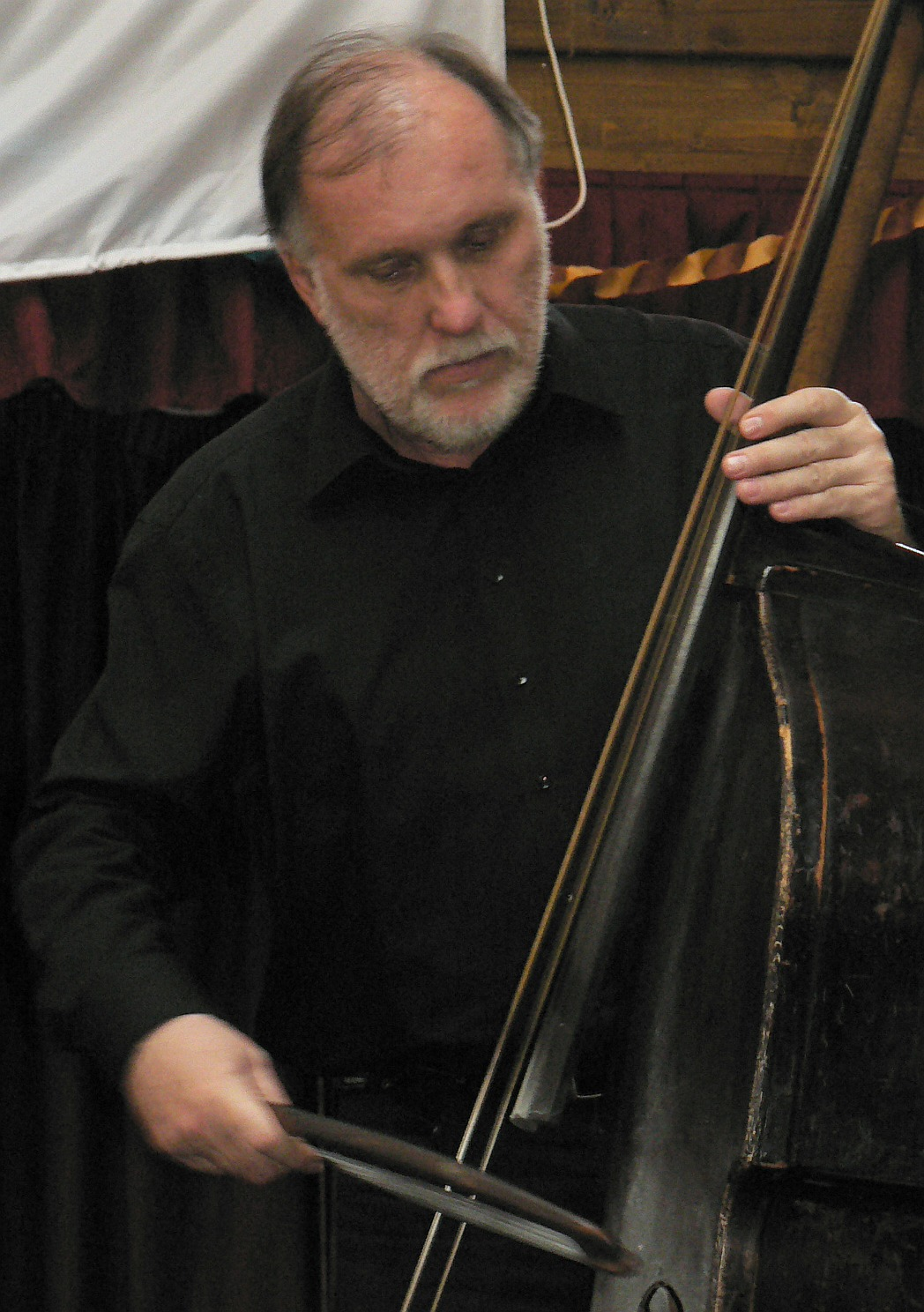 Hamar Dániel 1 (2012)